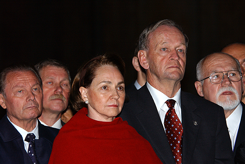 ST ISAAC'S CATHEDRAL, ST PETERSBURG. Canadian Prime Minister Jean Chretien (centre) and his wife, Aline.